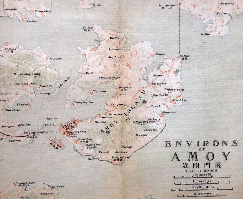 Xiamen and Gulangyu Island in 1915